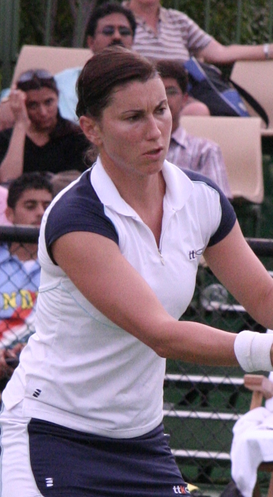 Sandra Kloesel at the 2007 Australian Open, during her first-round womens doubles match, partnering Aravane Rezai.